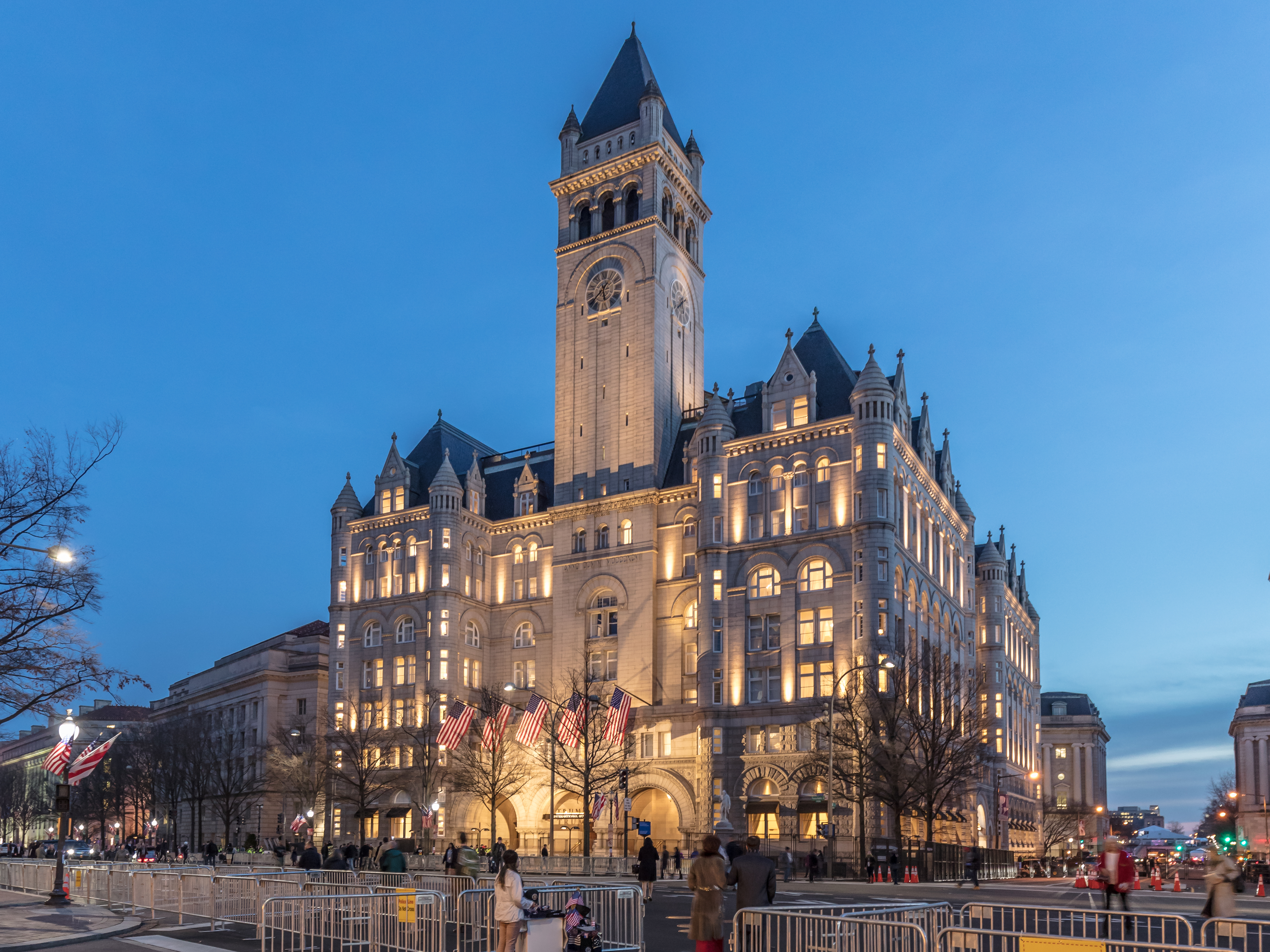 The Trump International Hotel